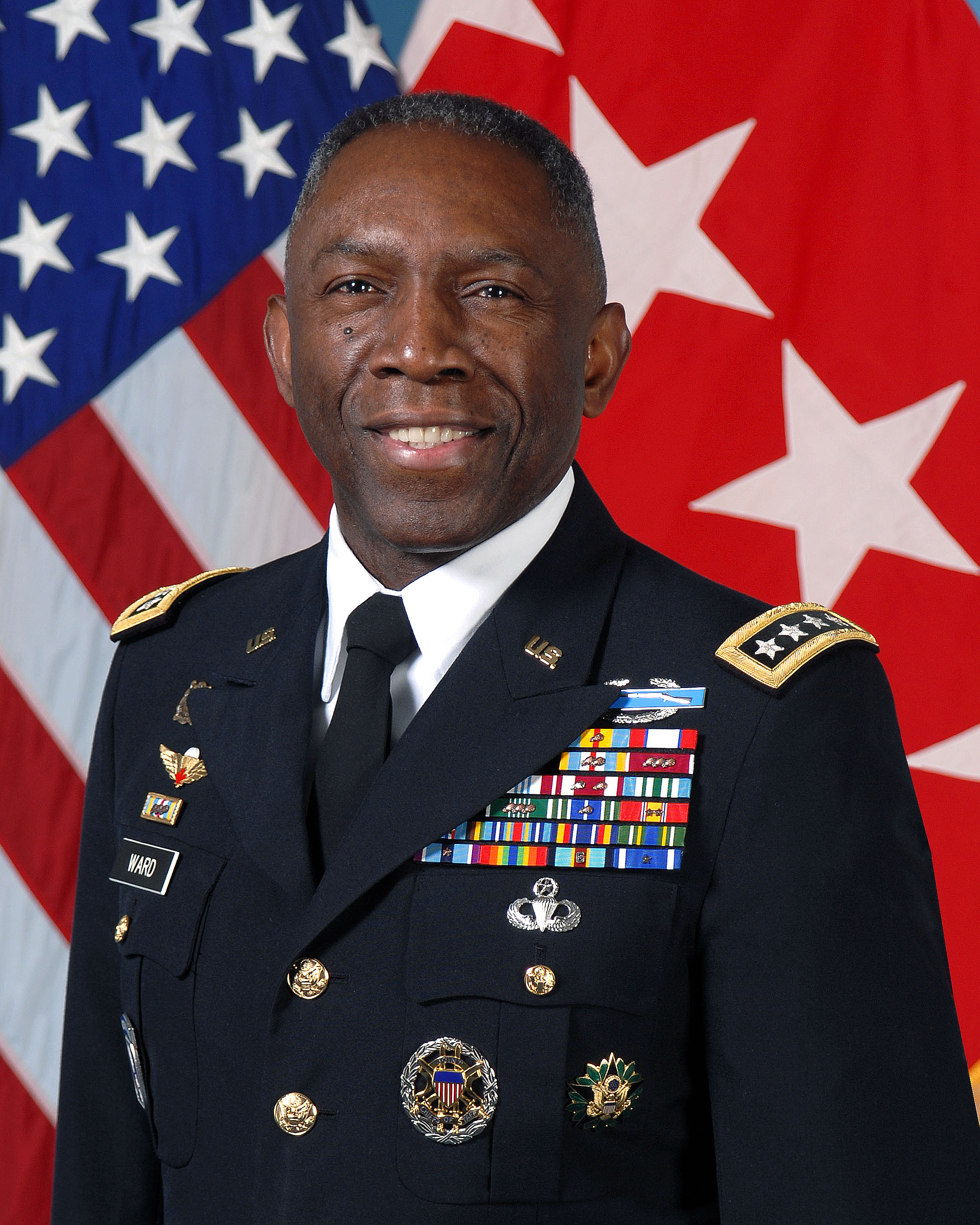 A circa November 2009 photograph of United States Army officer, Kip Ward.